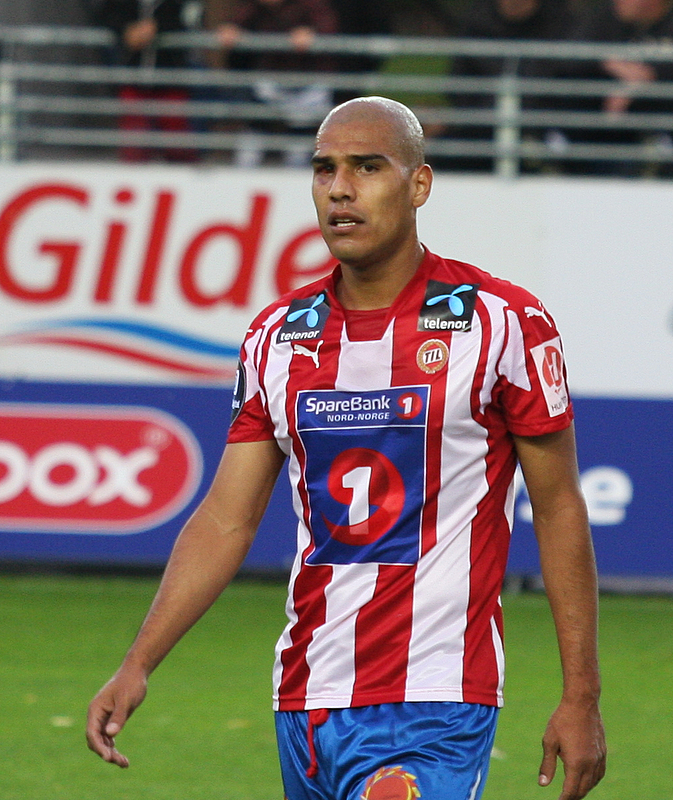 Douglas Sequeira from Costa Rica, player for Tromsø IL